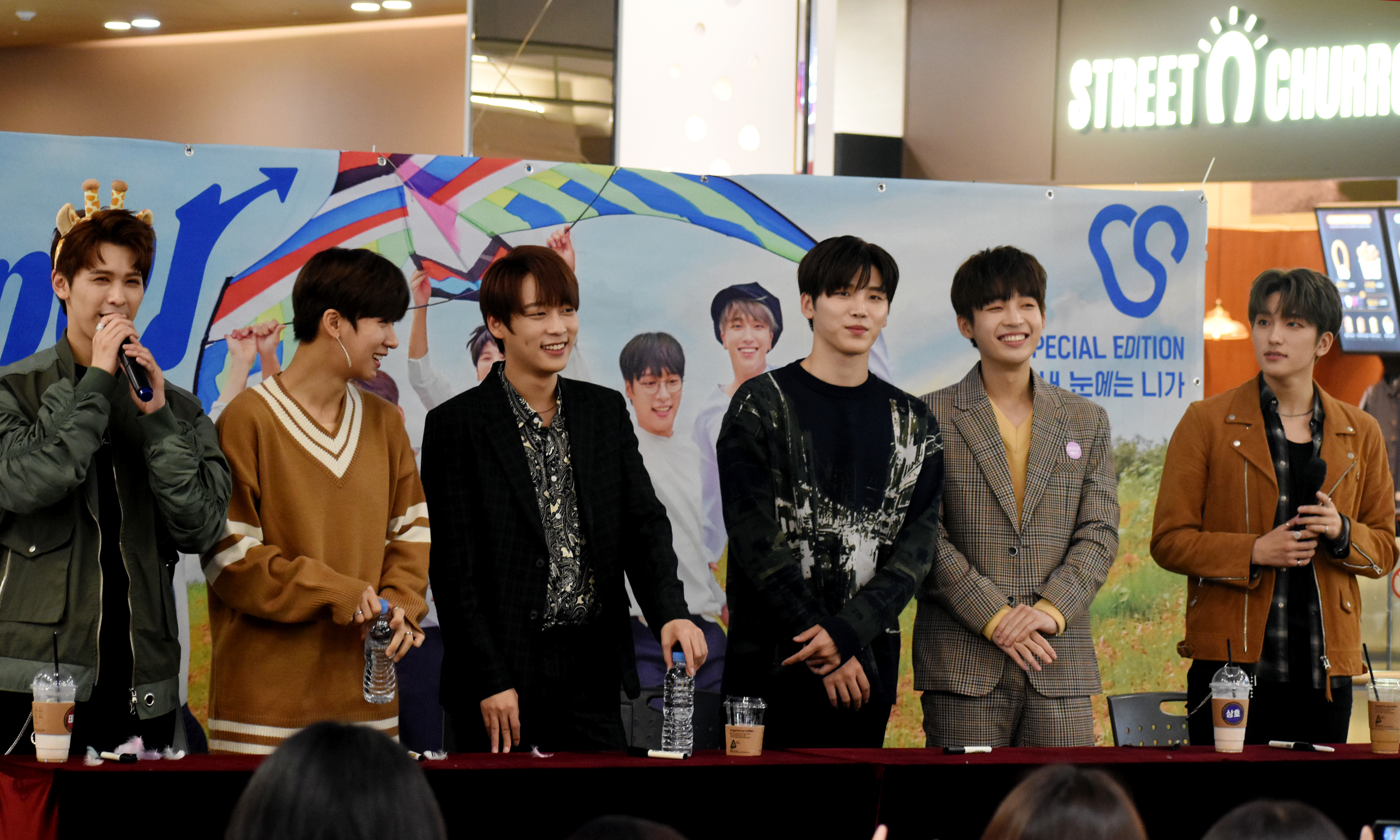 Snuper at a fansign event at the Gimpo International Airport branch Lotte Mall on October 20, 2018.